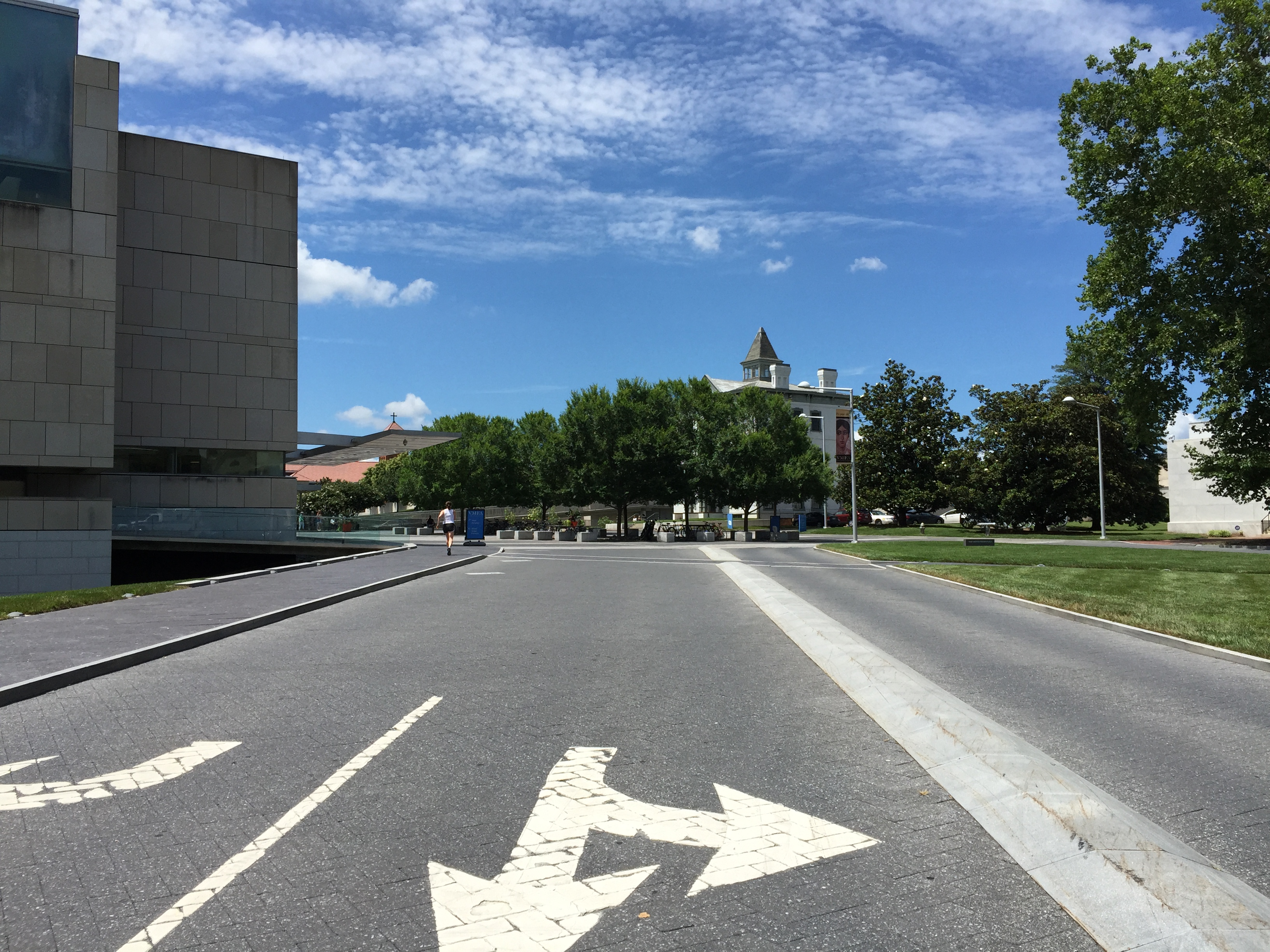 View north along Virginia State Route 315 at Virginia State Route 161 (Boulevard) at the Virginia Museum of Fine Arts in Richmond, Virginia